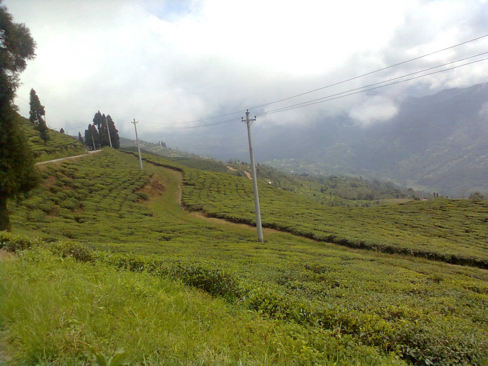 Chiyabari Ilam, Kathmandu.